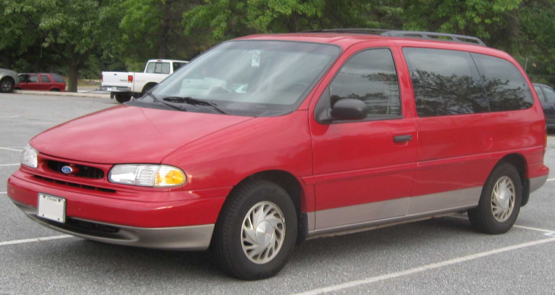 Ford Windstar photographed in College Park, Maryland, USA.